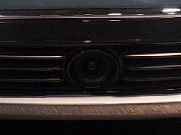 Chrysler Forward Collision Warning camera